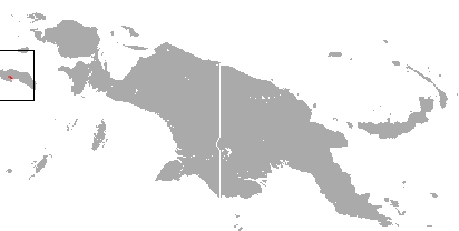 Seram Bandicoot (Rhynchomeles prattorum) range